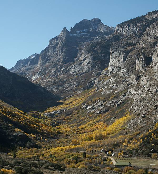 Mount Gilbert, Right Fork Canyon, and Camp Lamoille